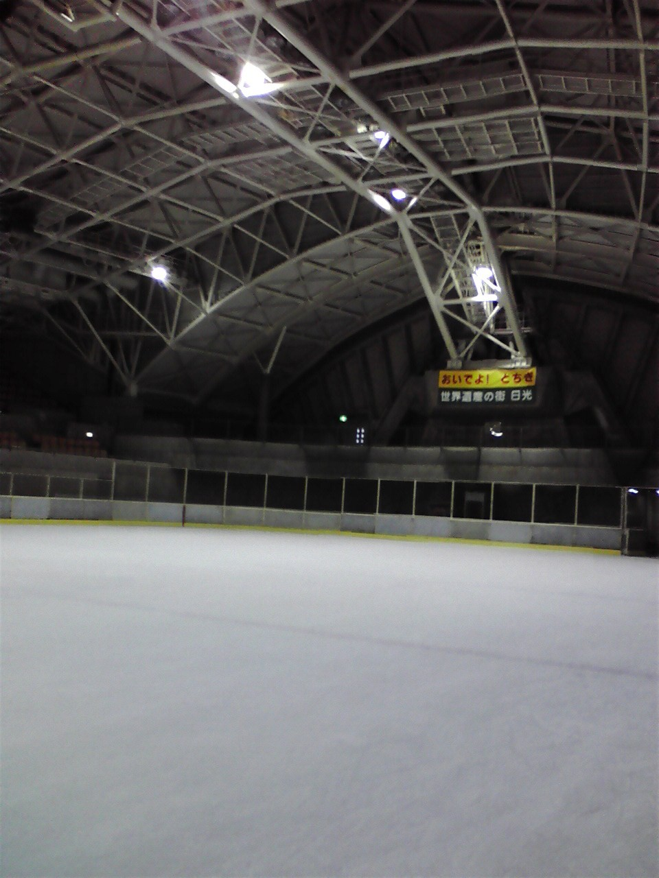 Nikko Kirifuri ice arena's inside.It is in Nikko, tochigi, Japan.